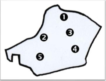 Sectors of Neerpede